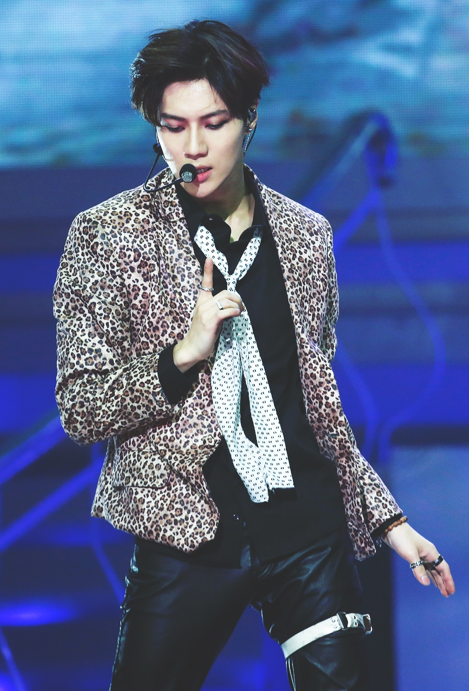 Taemin at the Golden Disk Awards on January 15, 2015.